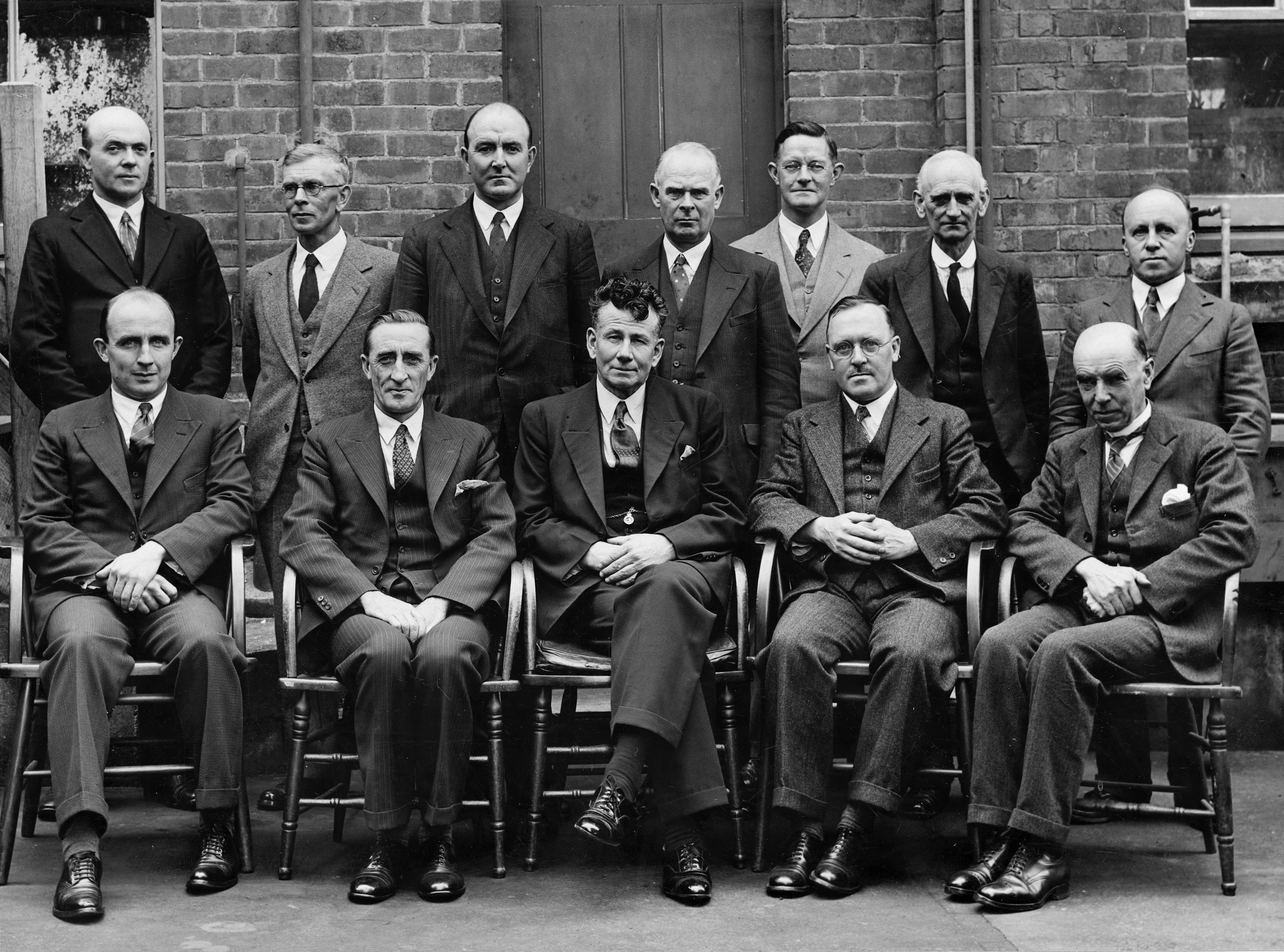 Members of the New Zealand Research Council, photographed in 1936 by an unknown photographer. The group comprises: Back row (from left): F R Callaghan, J M Ranstead, G A Duncan, G A Pascoe, A M Seaman, A H Cockayne, H Vickerman. Front row: Terence McCombs MP, T Rigg, Hon Daniel Giles Sullivan, E Marsden, J Malcolm. The chairman, H G Denham, and W Riddet were absent when the photograph was taken.